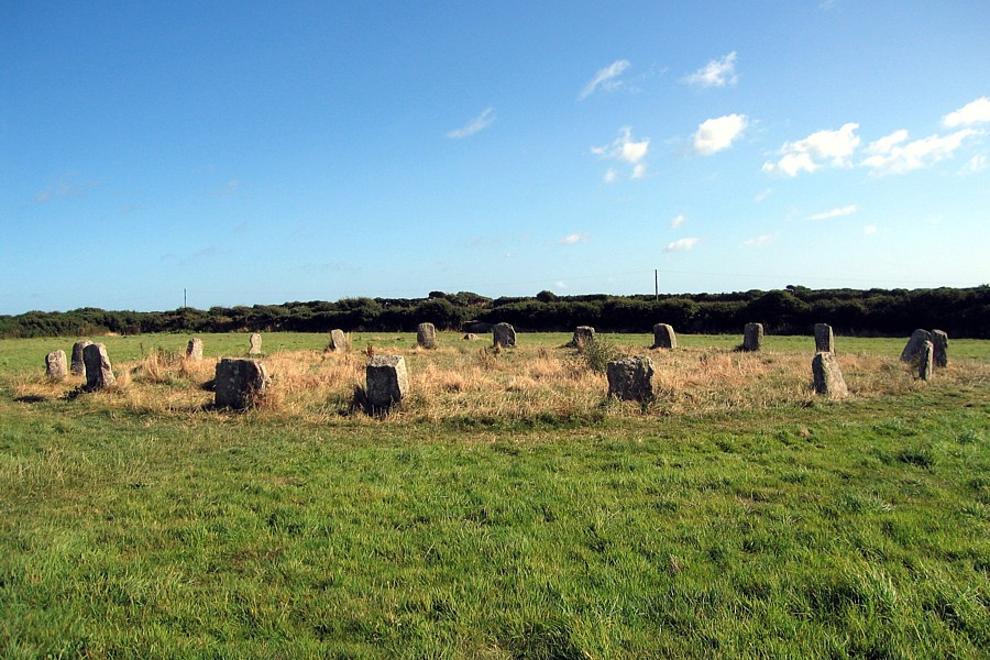 Merry Maidens - stone circle - viewing direction south - Cornwall - UK